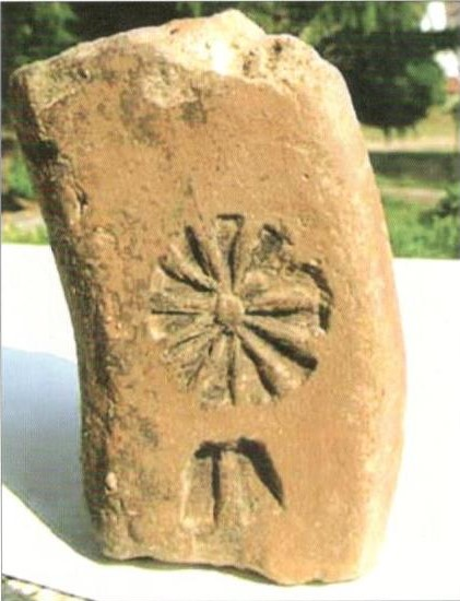 Archaeological artifact of altar of the great mother goddess found in Stenche, Macedonia